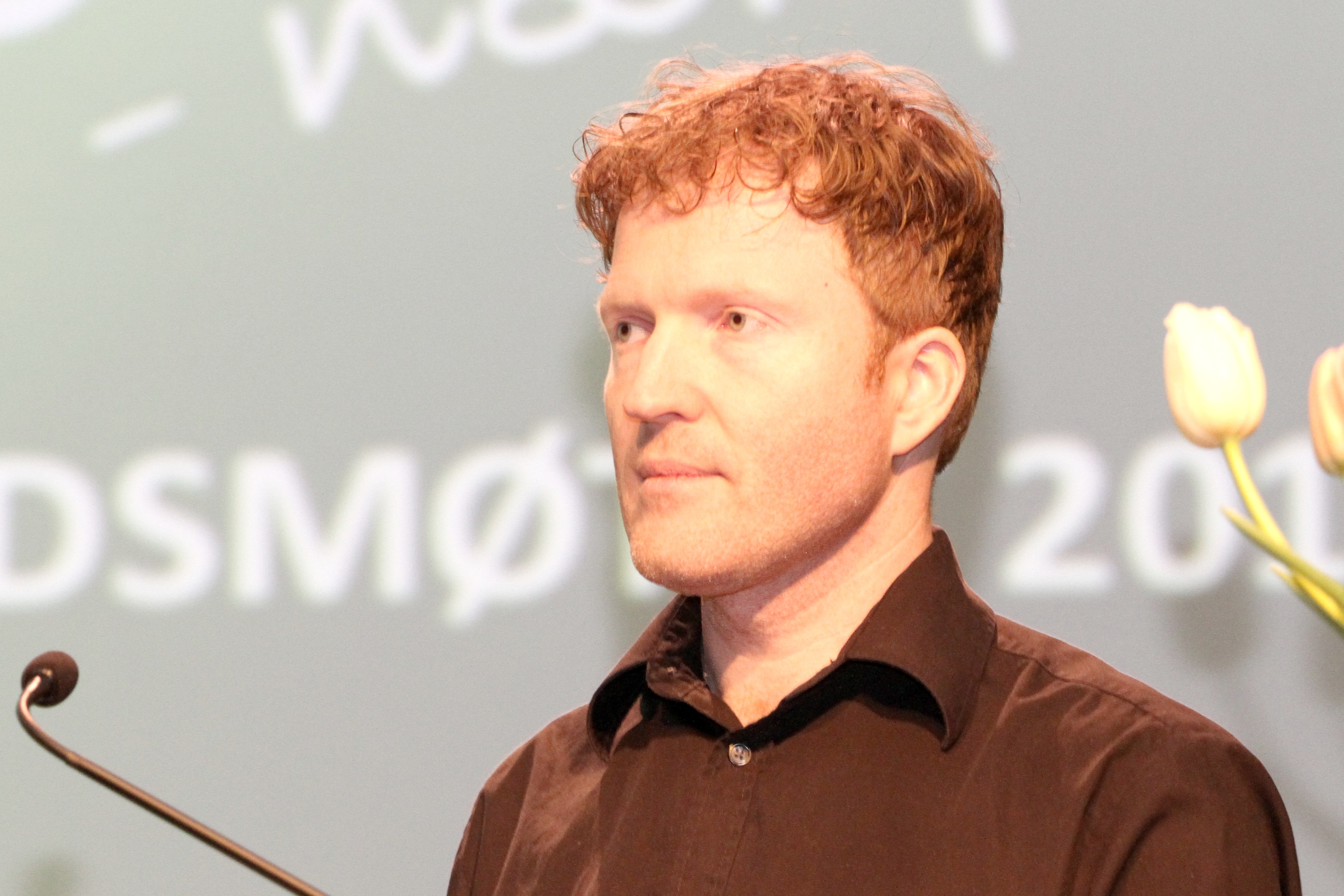 Sigbjørn Gjelsvik